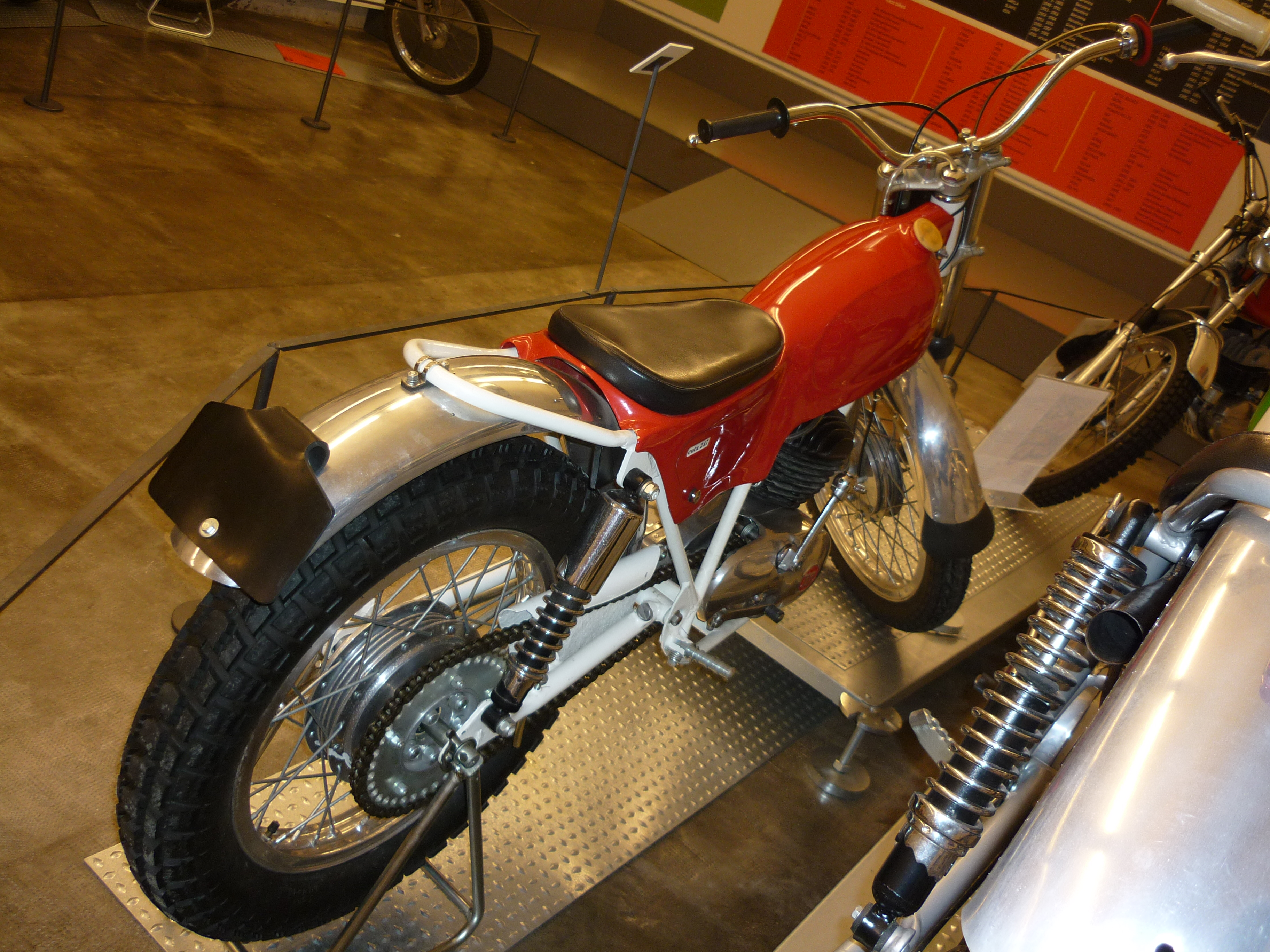 Montesa Cota 247 (1968, the first version).Museu de la Moto de Barcelona (Catalonia).